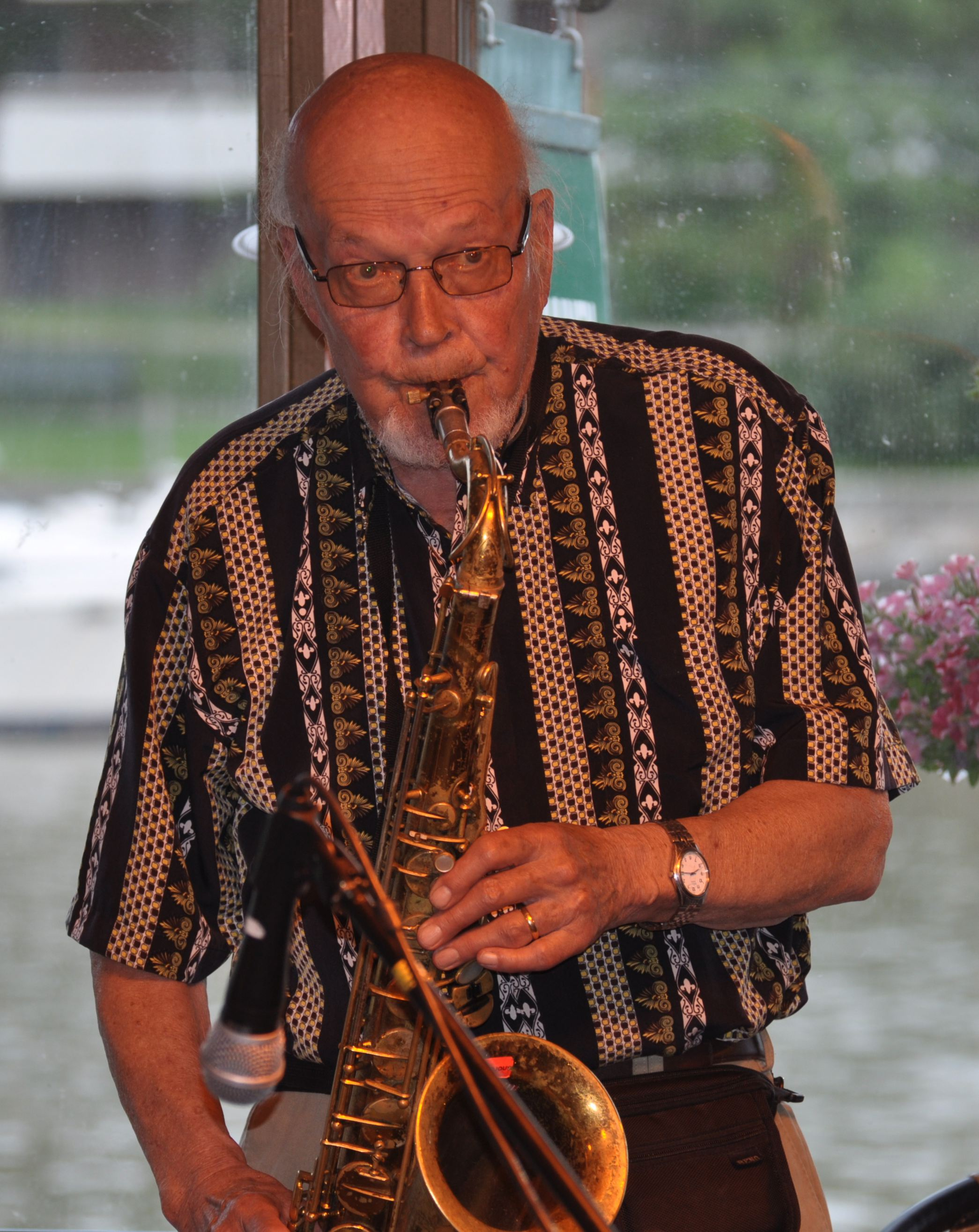 Finnish jazz musician Kalle Kaartinen performing at Vaakahuone, Turku, 2012.